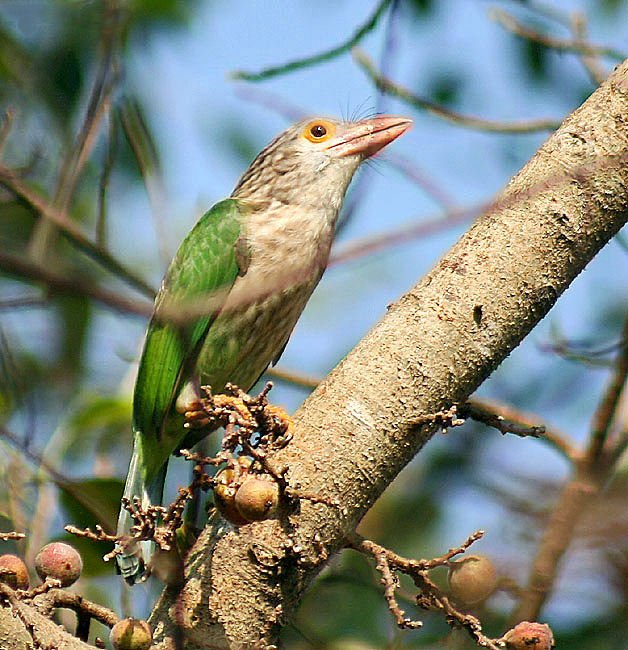 Lineated Barbet Megalaima lineata in Kolkata, West Bengal, India.